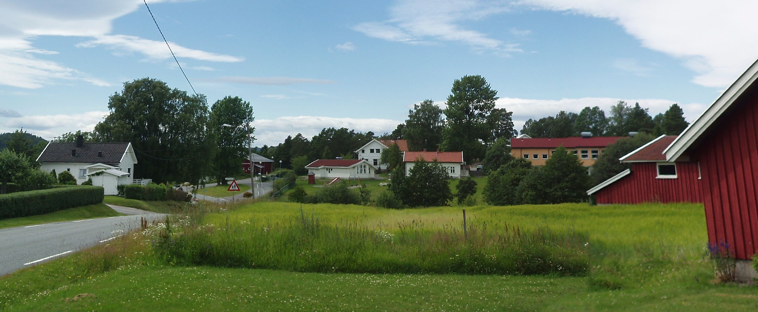 The hamlet of Kana in Hurum, South Norway